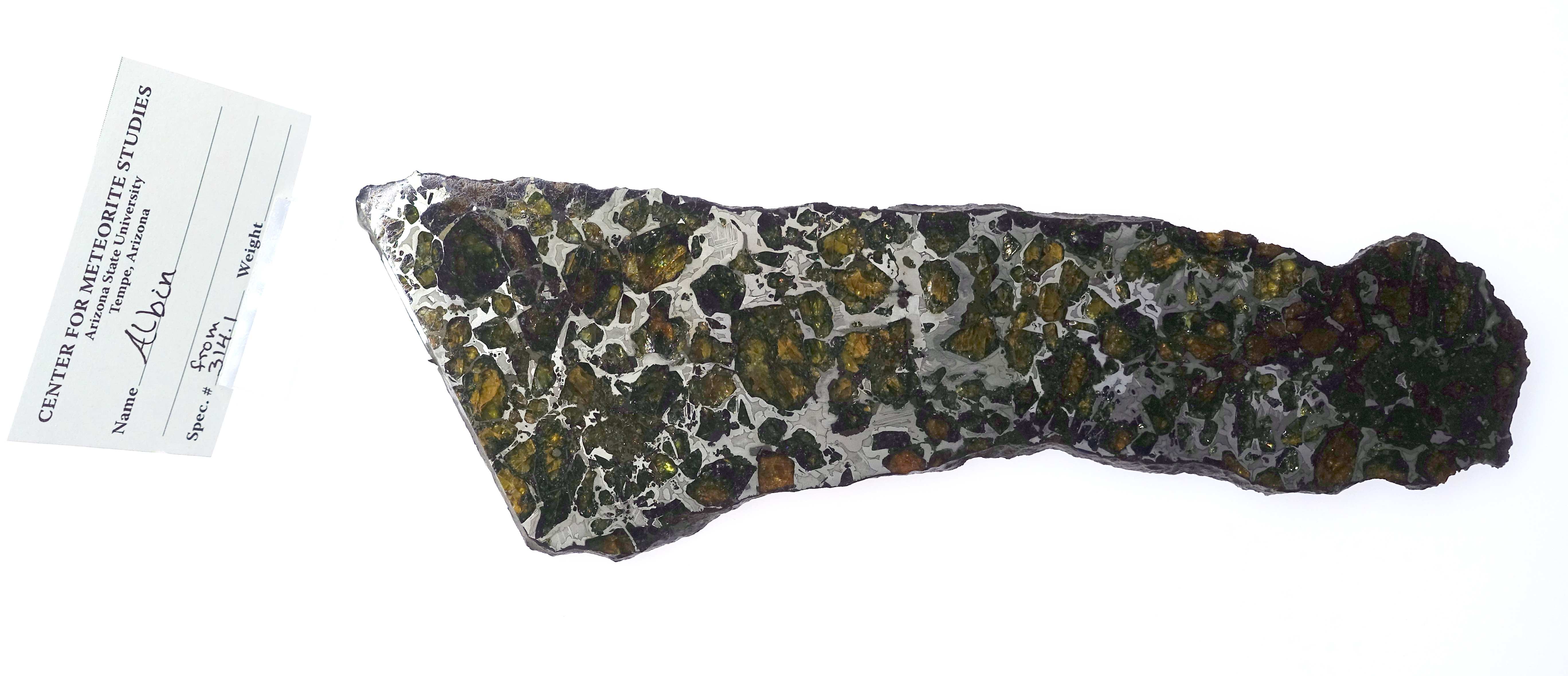 Albin meteorite slice, pallasite. Exhibit at the Center for Meteorite Studies, Arizona State University, Tempe, Arizona, USA.